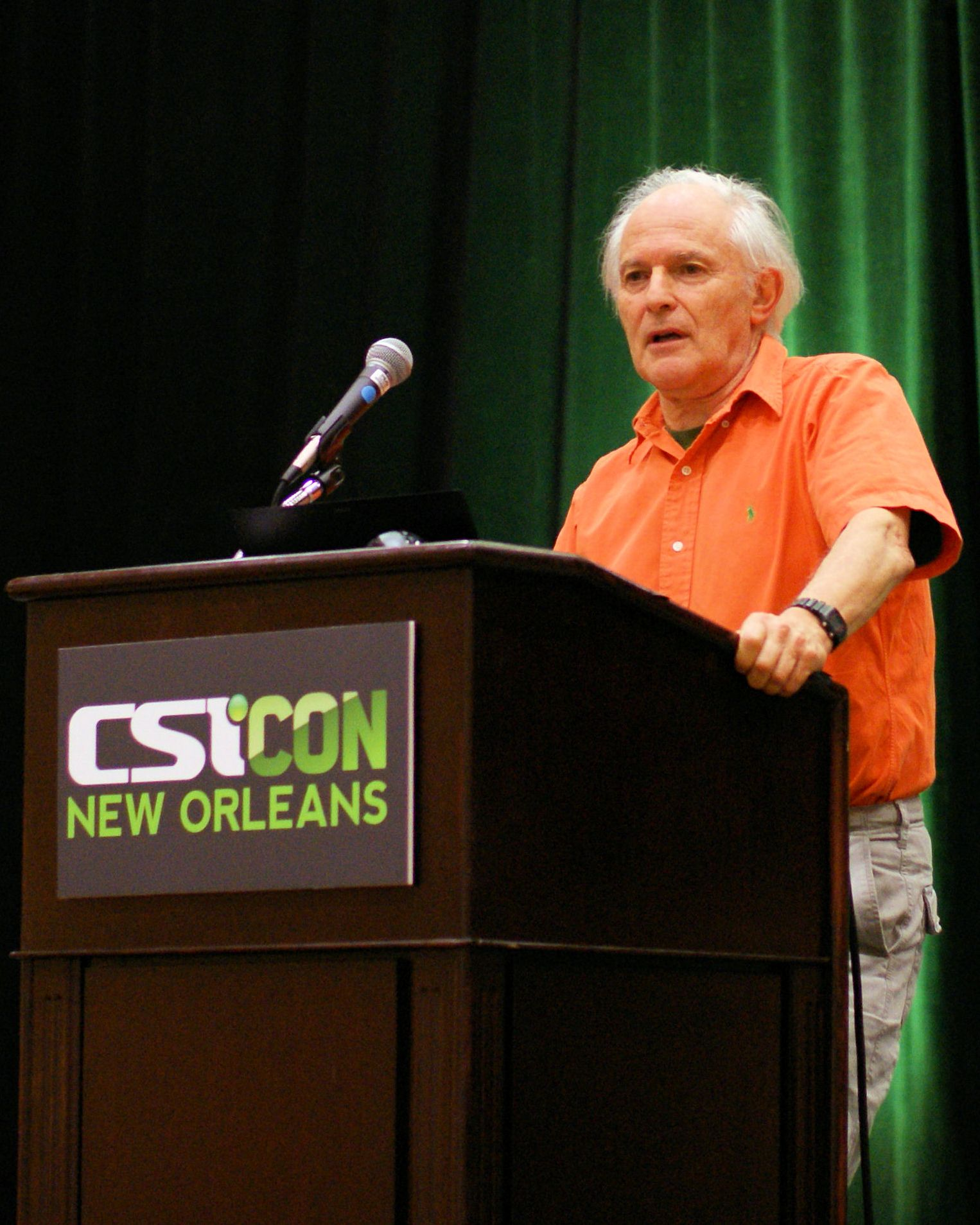 Sir Harold Kroto speaking at CSICON 2011 in New Orleans, LA.